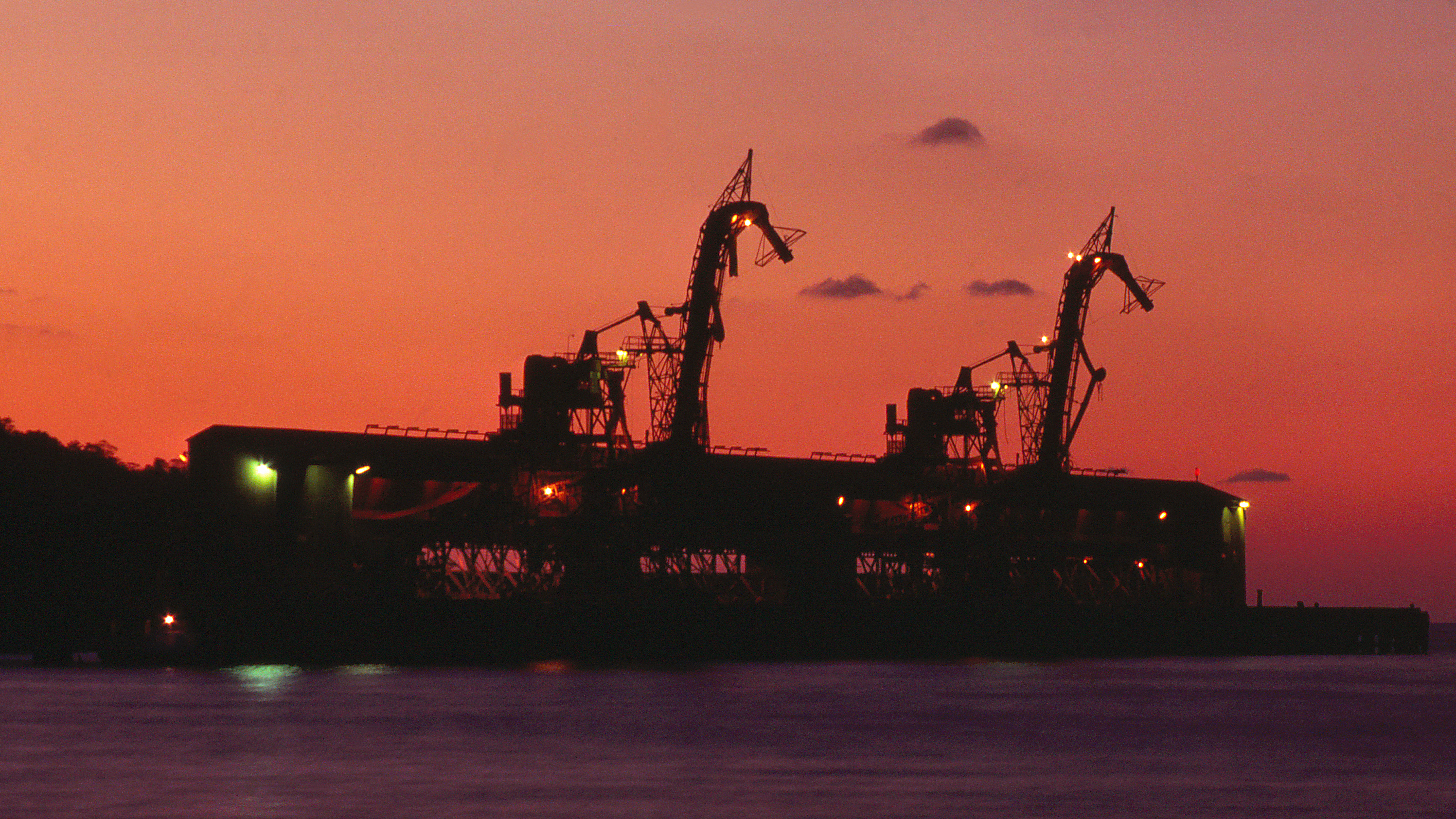 Reynolds Metals produced aluminum bauxite in Jamaica from 1952 until 1984. This bauxite shipping terminal was located on Reynolds Pier in Ocho Rios. It doubled as the villain's lair in Dr. No (1962). The pier now serves as a dock for cruise ships. (Digitized from Kodachrome original, taken Dec 1975)